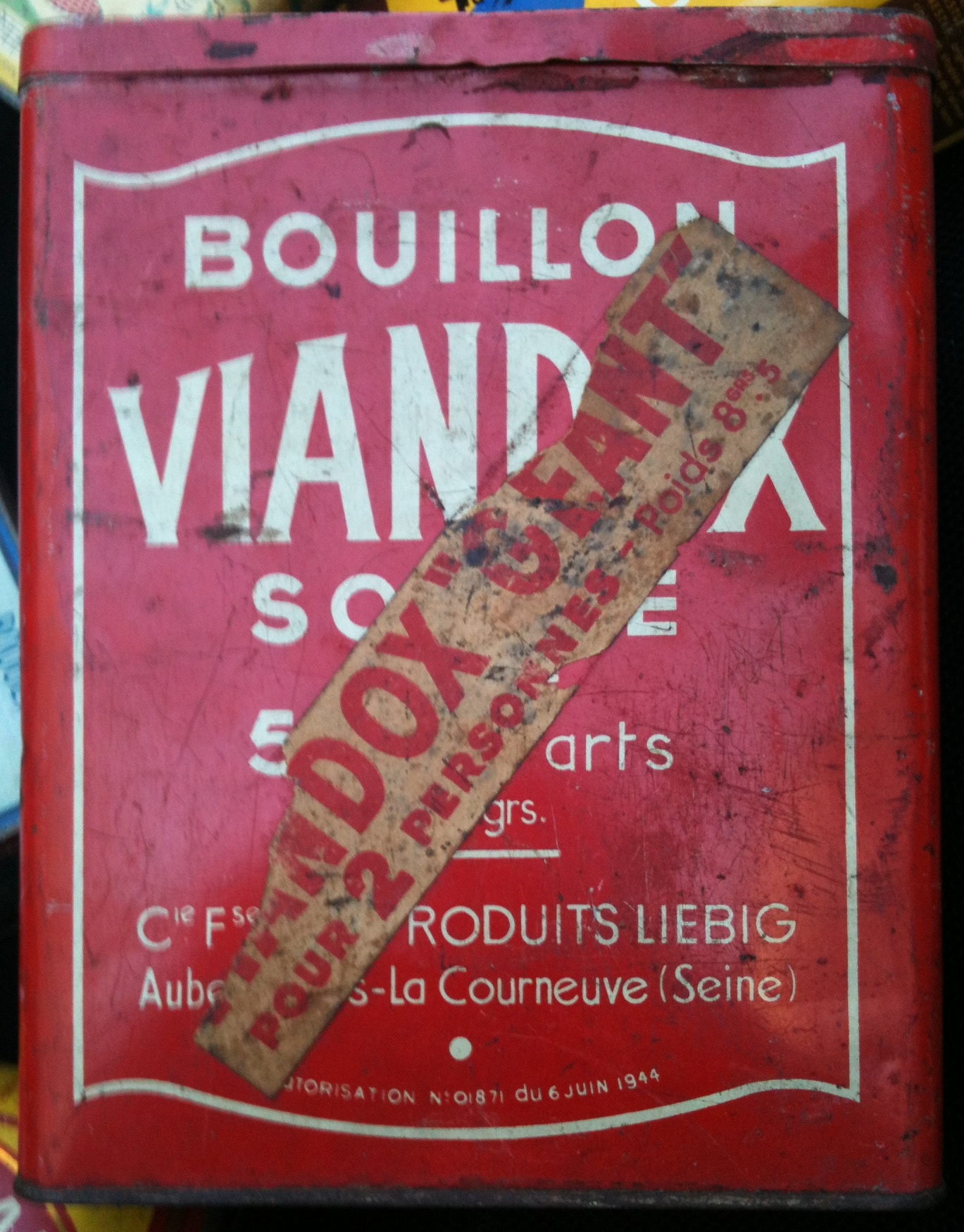 Metal box of meat extract Viandox Soluble, Liebig (Aubervilliers, France).